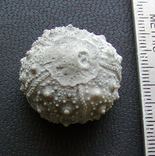 This is a fossil Leptosalenia texana (jr synonym= Salenia texana) sea urchin from the Lower Glen Rose formation of Central Texas